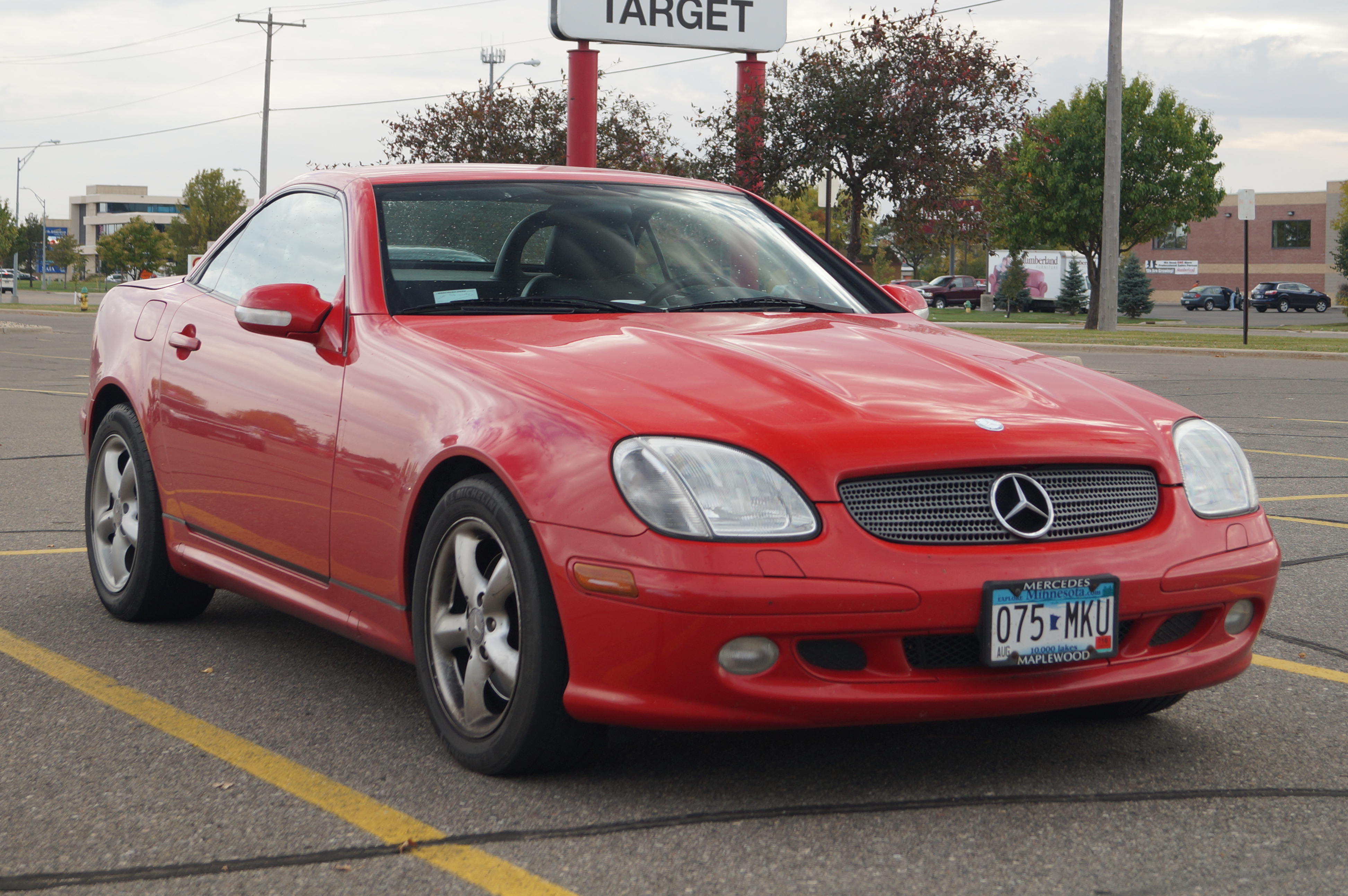 Click here for more car pictures at my Flickr site.